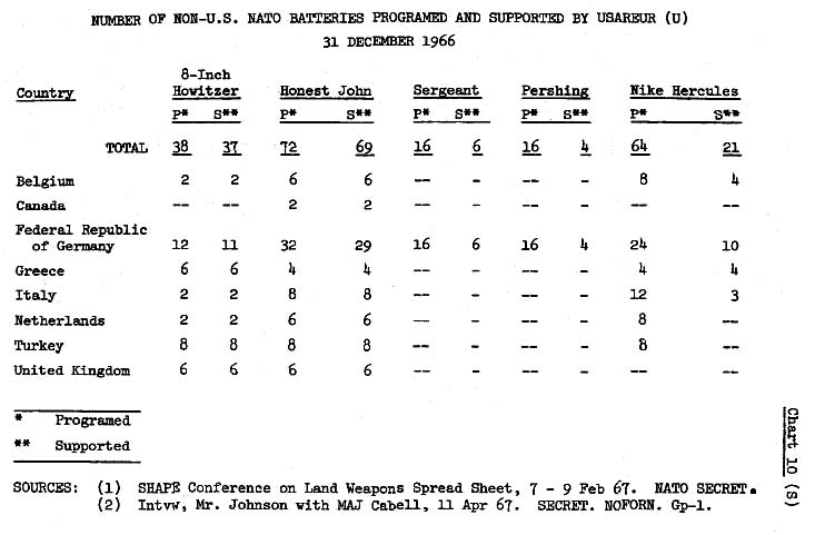 Special Ammunition Support Command, 1966 Non-US NATO Batteries supported by SASCOM Annual Historical Summary, USAREUR & Seventh Army, 1 January to 31 December 1966 Number of Non-US NATO Batteries Programed and Supported by USAREUR, 1 January to 31 December 1966 SASCOM = Special Ammunition Support Command USAEUR = United States Army Europe & Seventh Army US = United States NATO = North Atlantic Treaty Organization